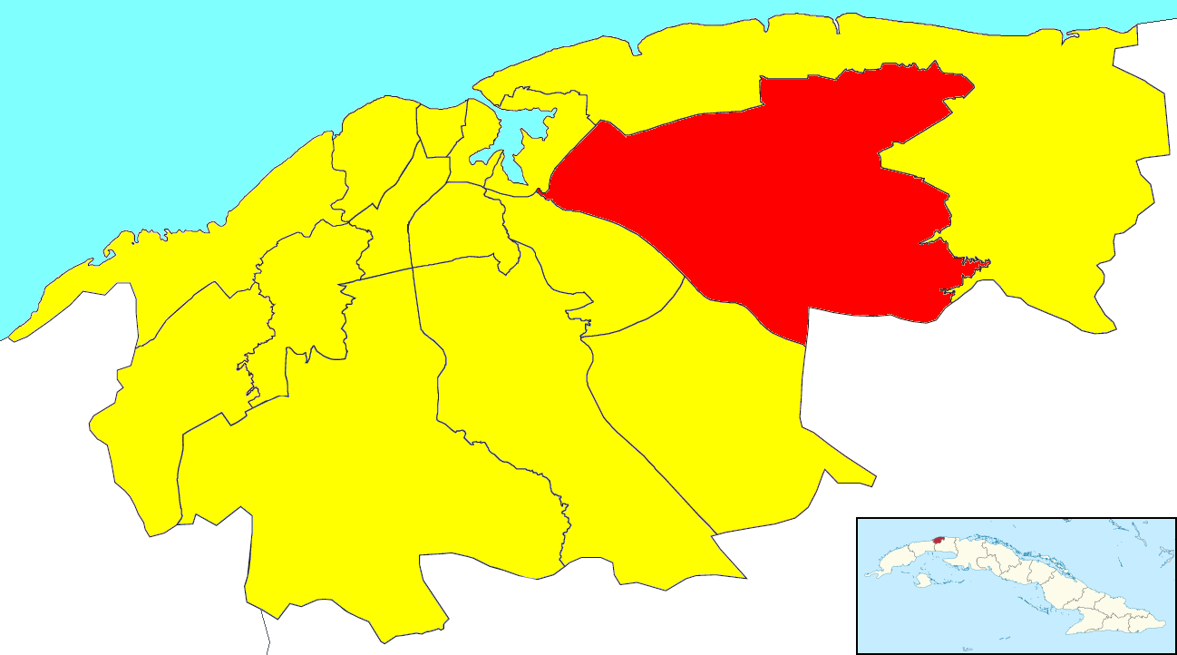 A map of the municipality of Guanabacoa (shown in red) within the city of Havana (yellow). The little Cuban map in the corner shows Havana (dark red) within the island.